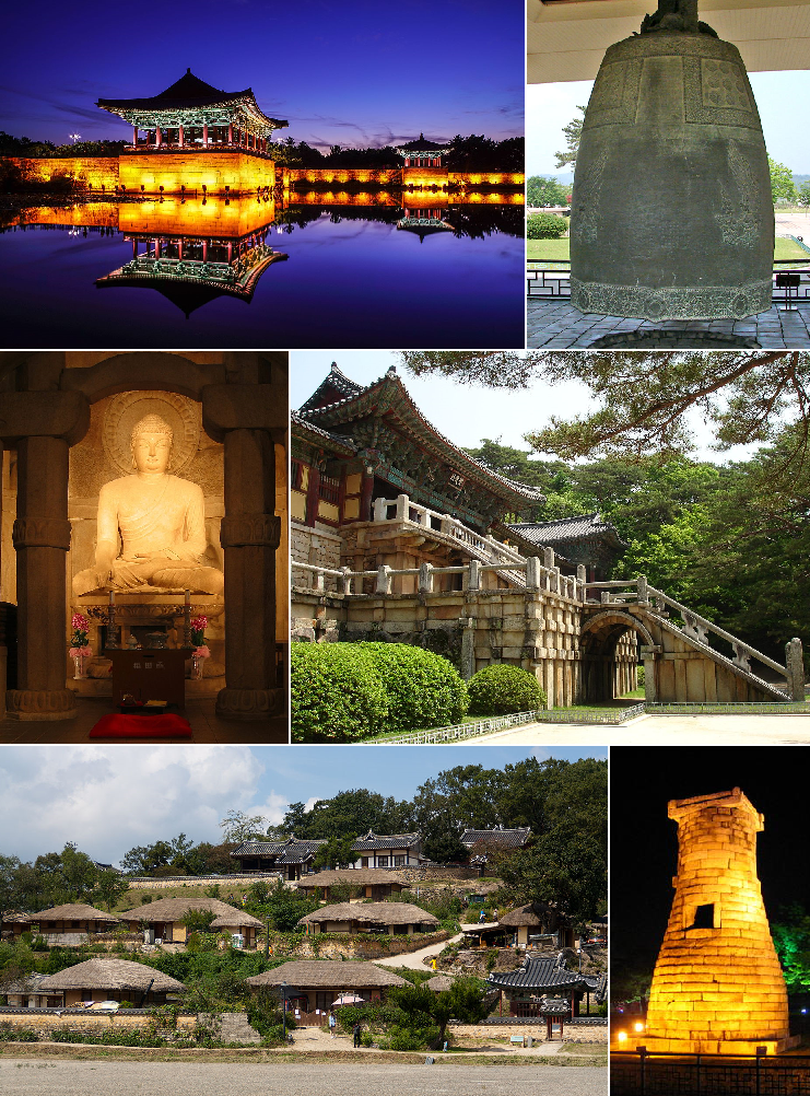 Photo montage of Gyeongju, Korea